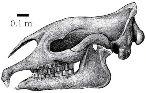 Skull illustration of Paraceratherium transouralicum.